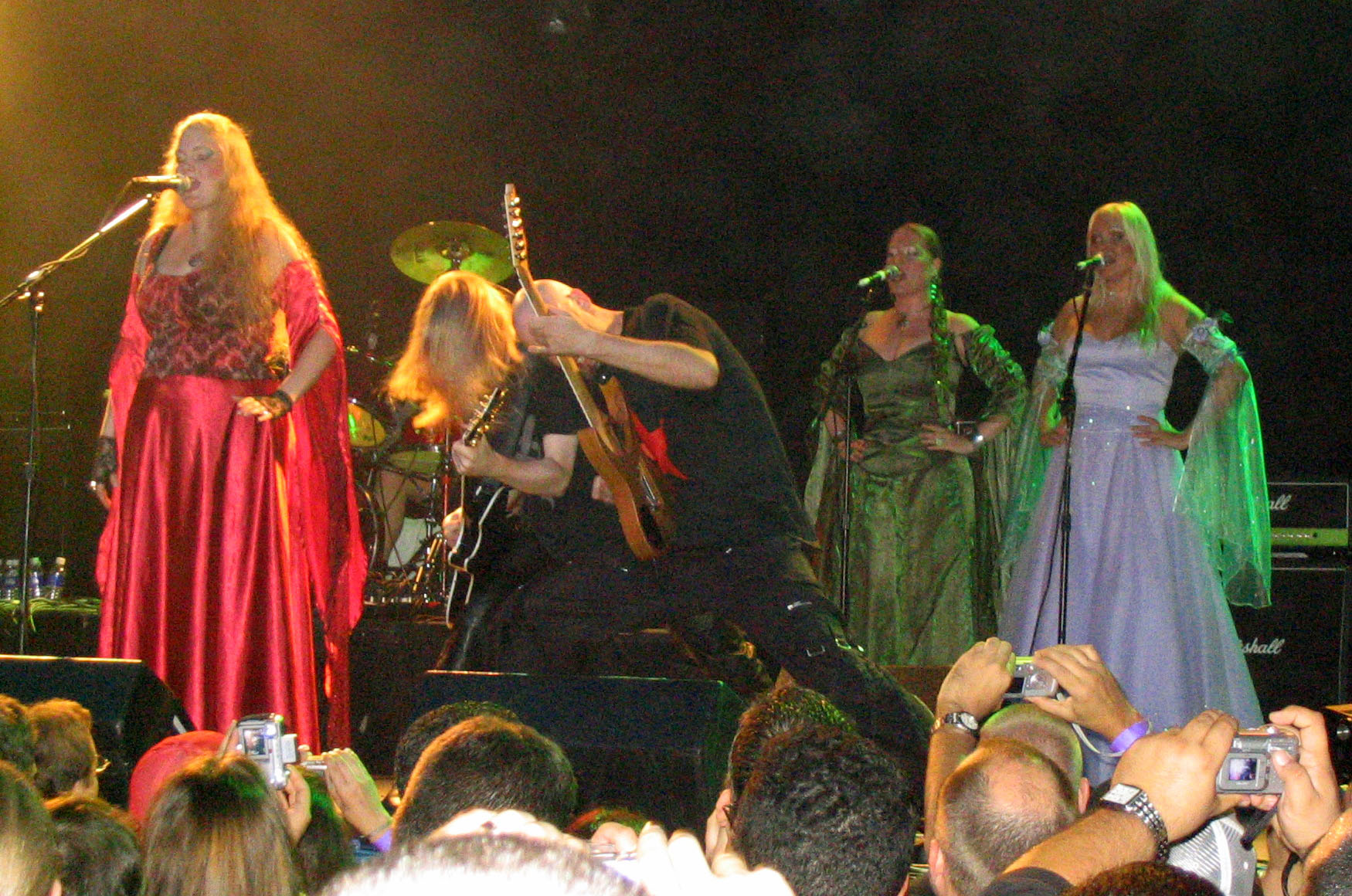 "Female lead singer, dueling guitarists and backup singers for Therion at ProgPower 2005"